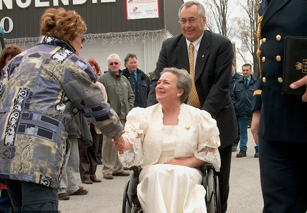 Visit of the Honourable Lise Thibault for Saint-Victor's 150th anniversary